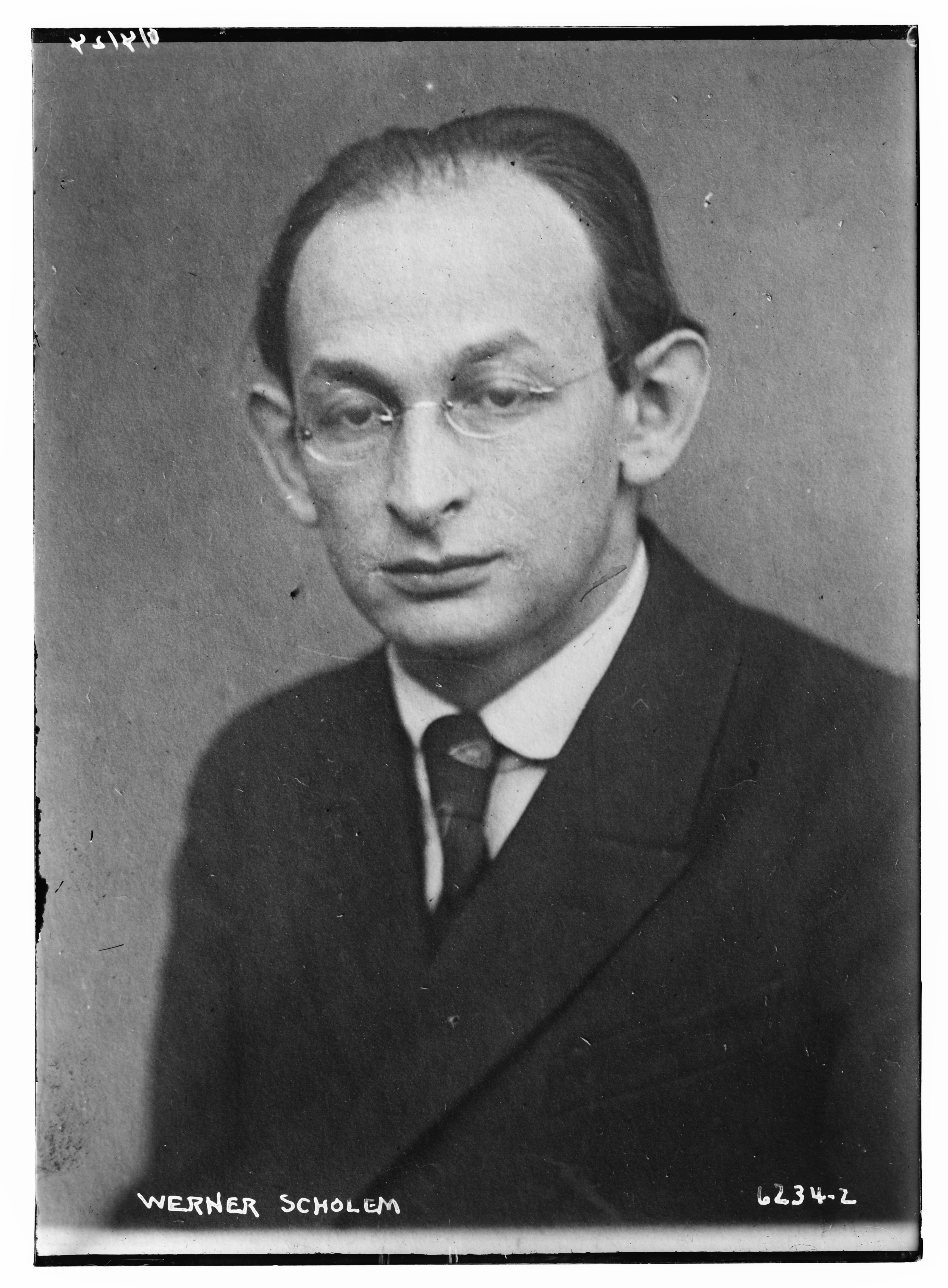 Title: Werner Scholem Abstract/medium: 1 negative : glass ; 5 x 7 in. or smaller.